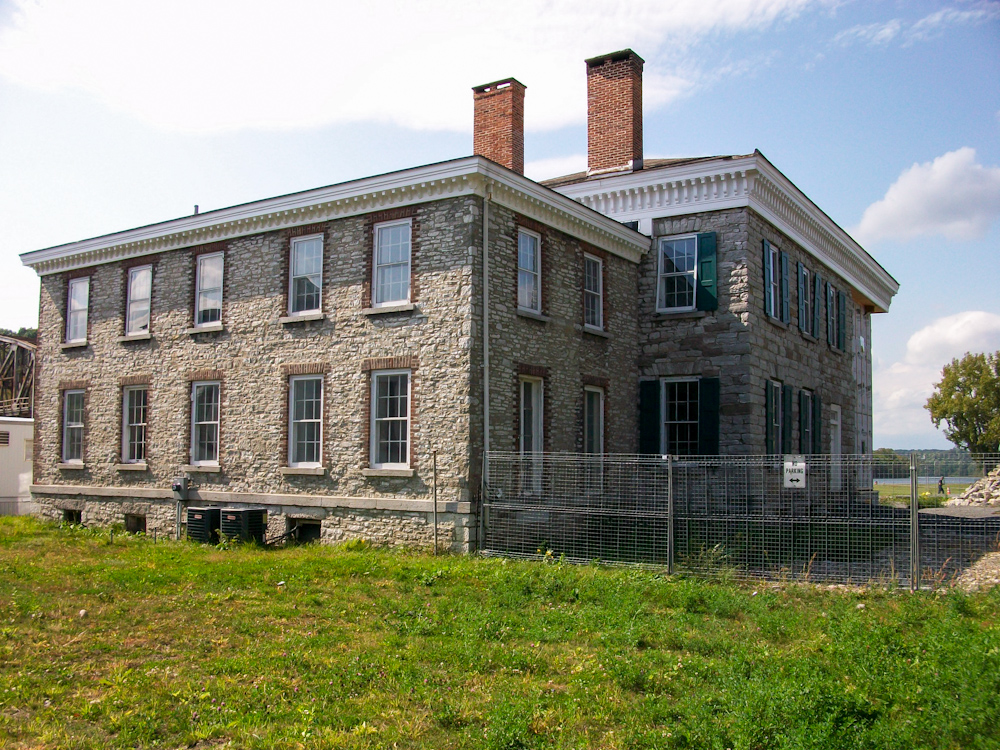 Guy Park